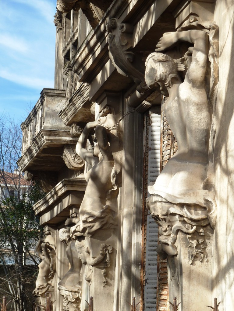 Frontage of Hotel Chappaz in Beziers.